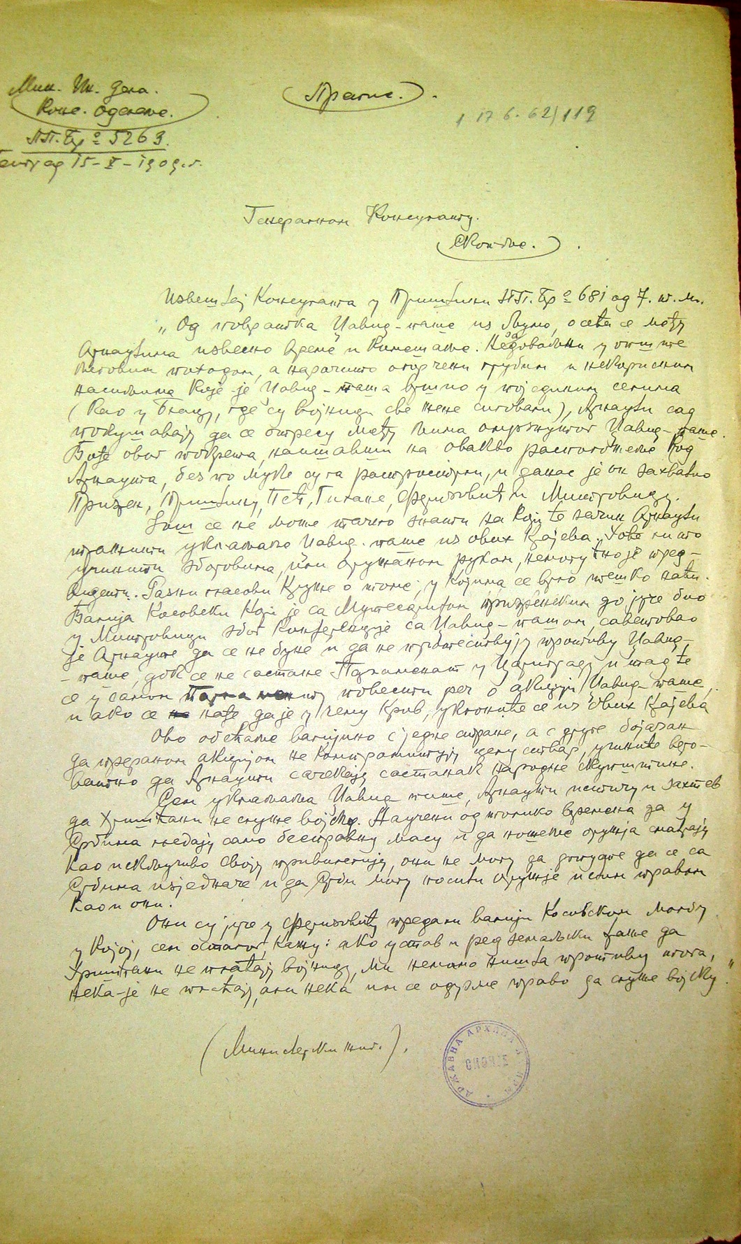 Report about resistance of Albanians against Javid Pasha, and the Act for serving of Christians in the Muslim army, from the report of the Consulate in Pristina. (15 October 1909) This media file is produced by Wikipedian in Residence in Category:Wikipedian in Residence at DARM in 2016.